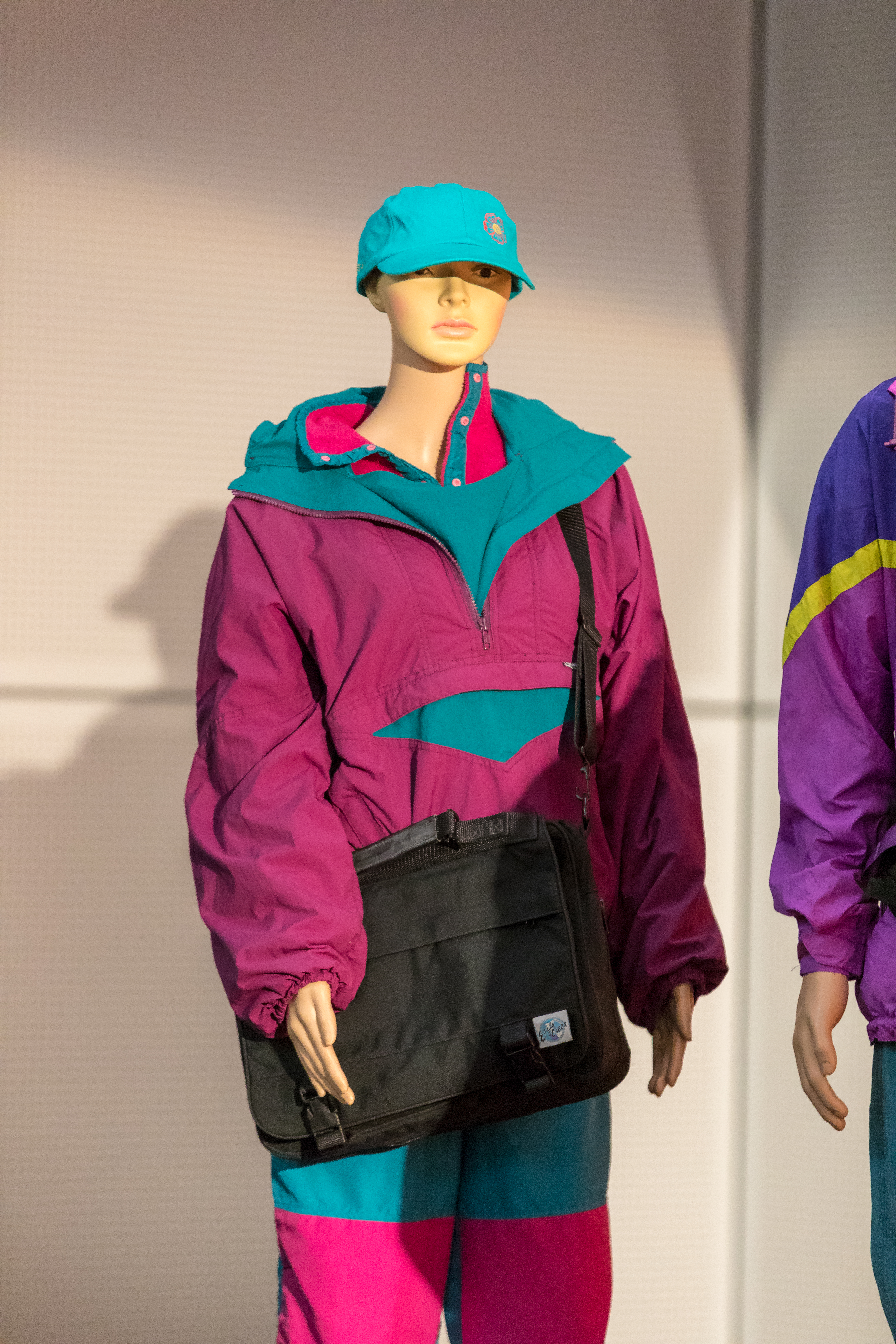 OutDoor 2018